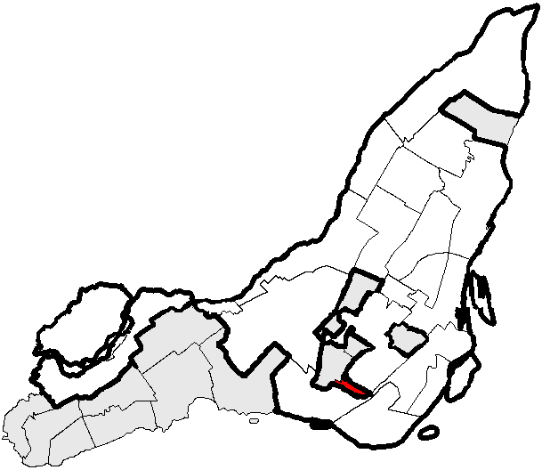 Location of Montréal-Ouest, Québec.